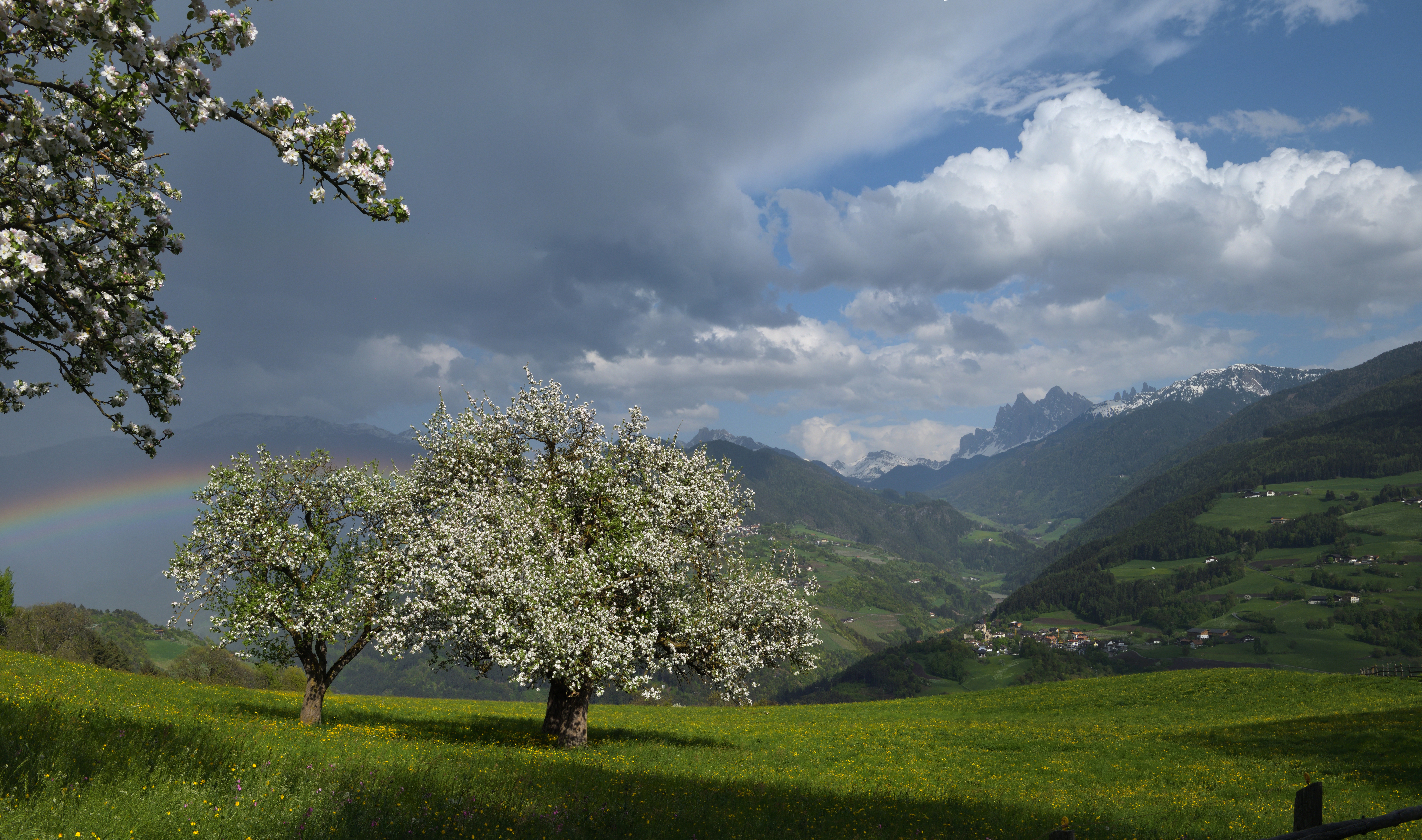 Blooming apple trees (Malus domestica) in Viersch South Tyrol - Protected natural monumets